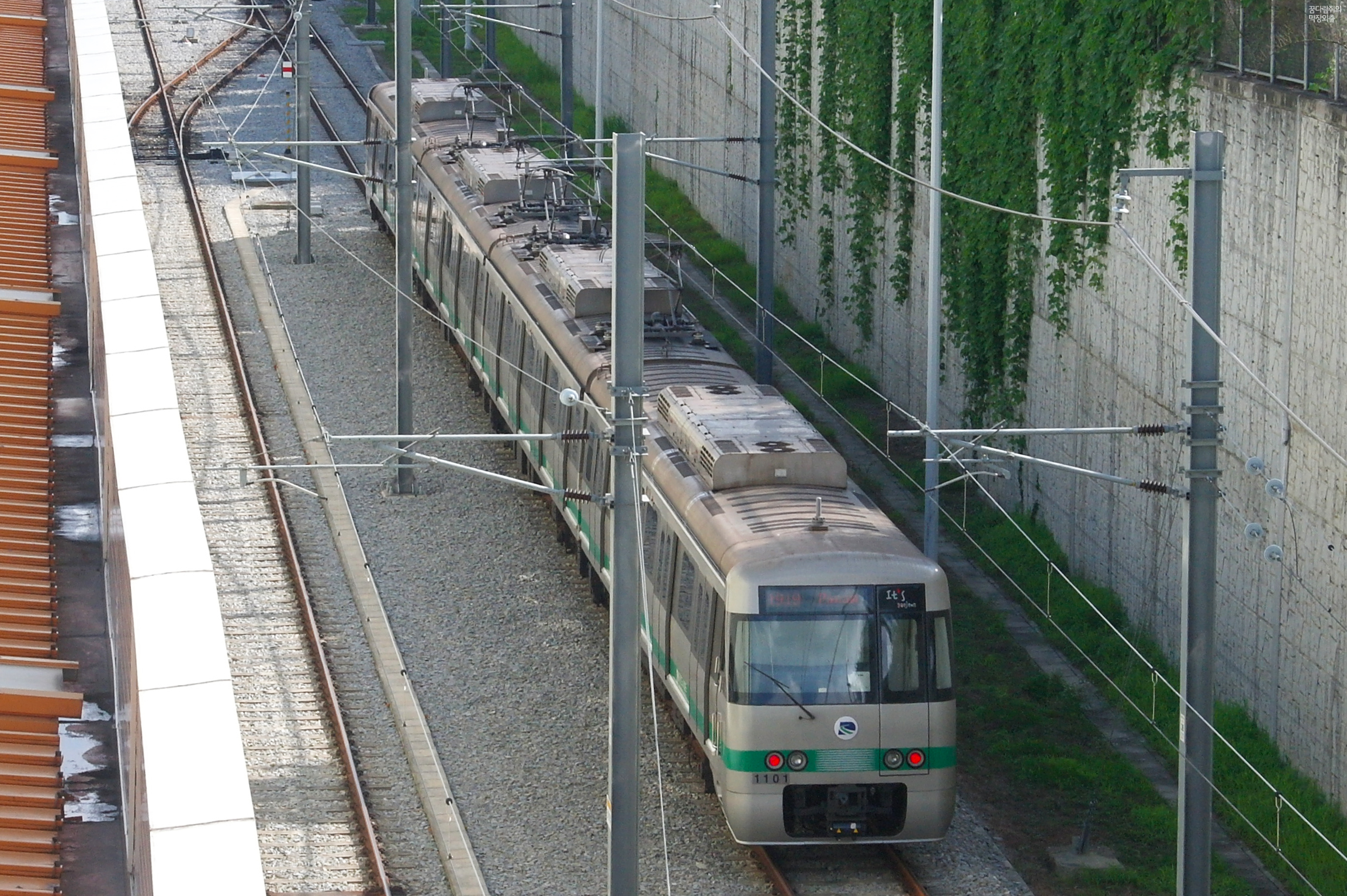 Daejeon metro EMU 1101